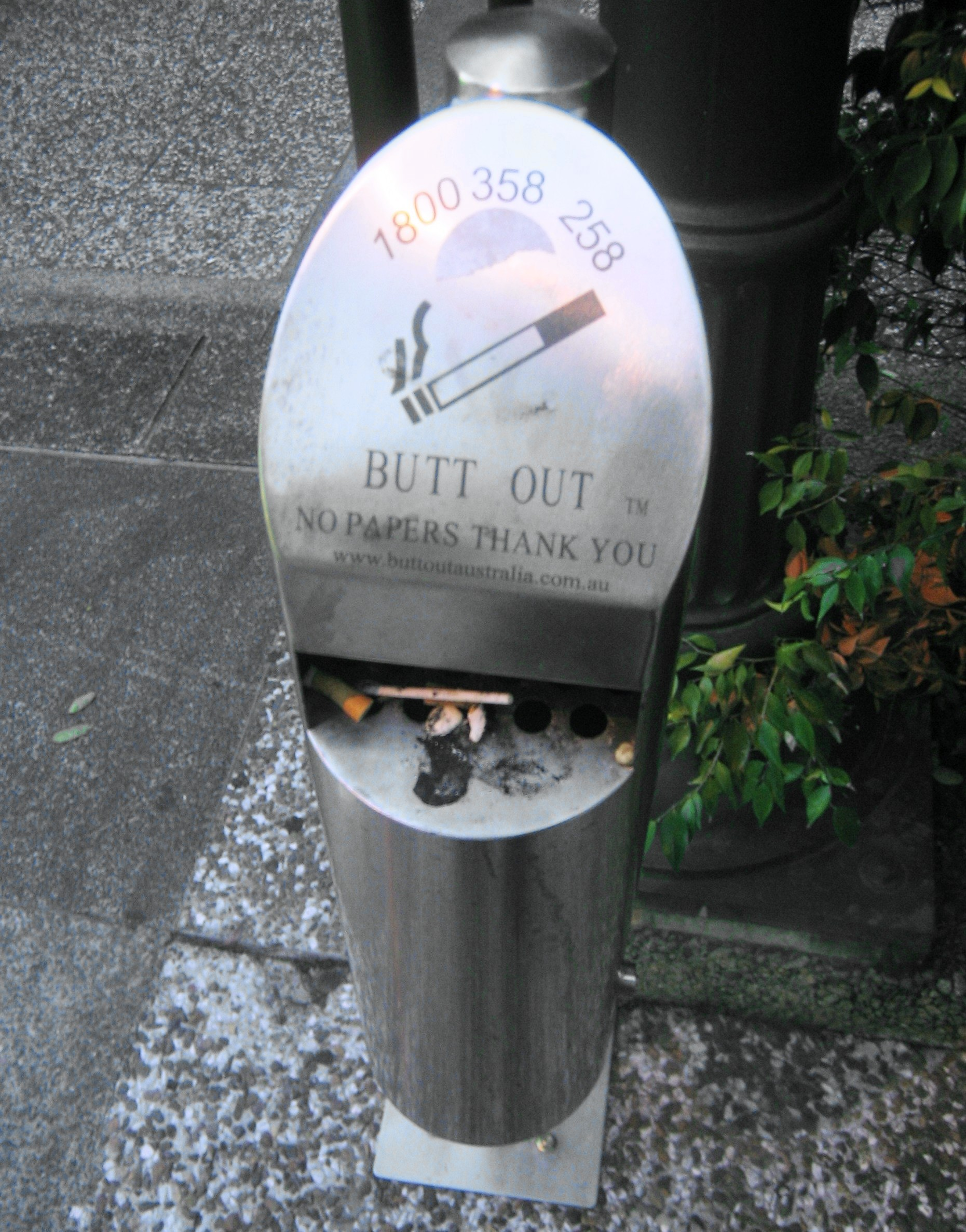 A Butt Out Australia cigarette disposal canister in Brisbane, Australia. Photo taken by myself.